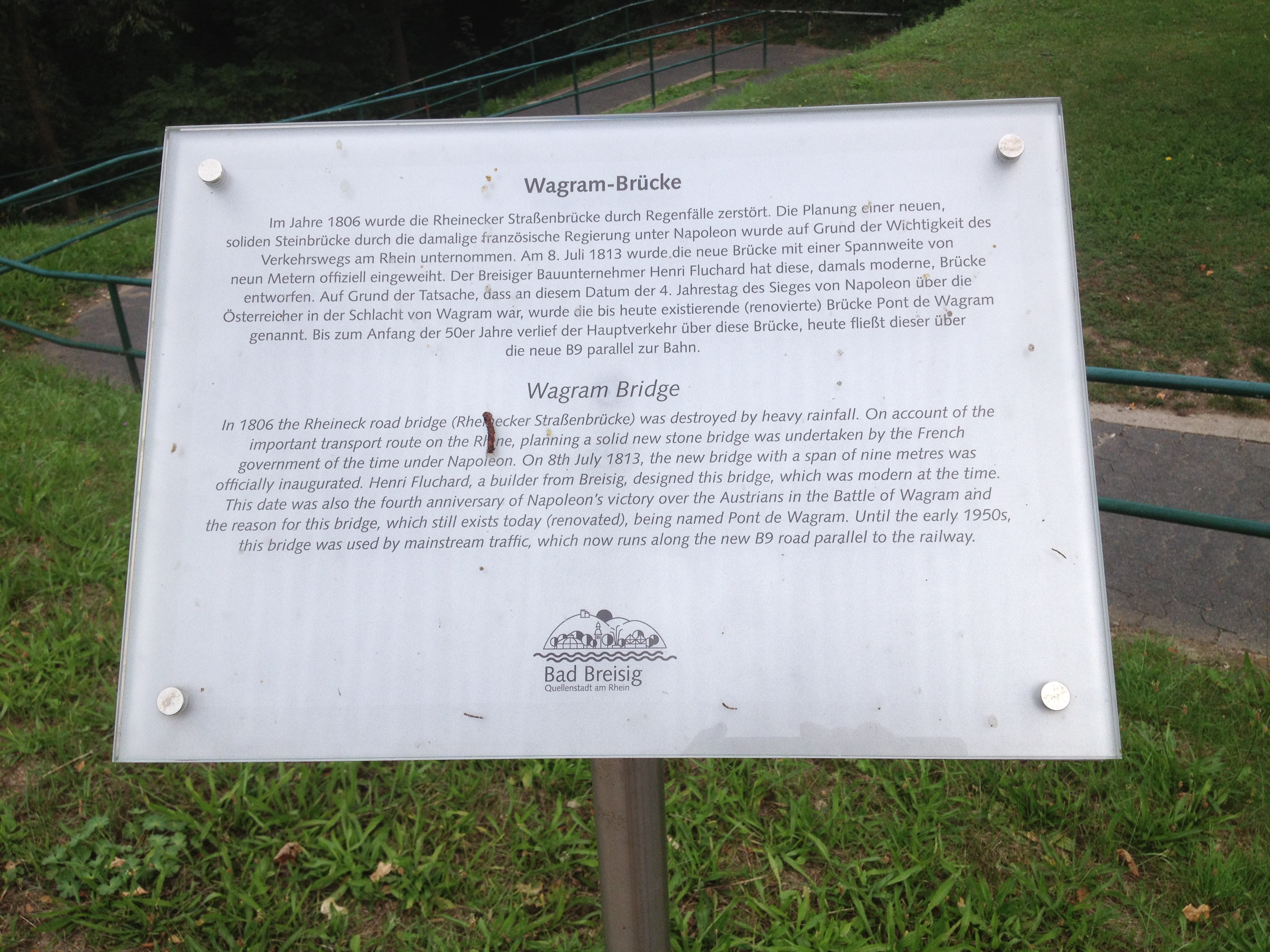 Information board Wagram Bridge near Bad Breisg Germany